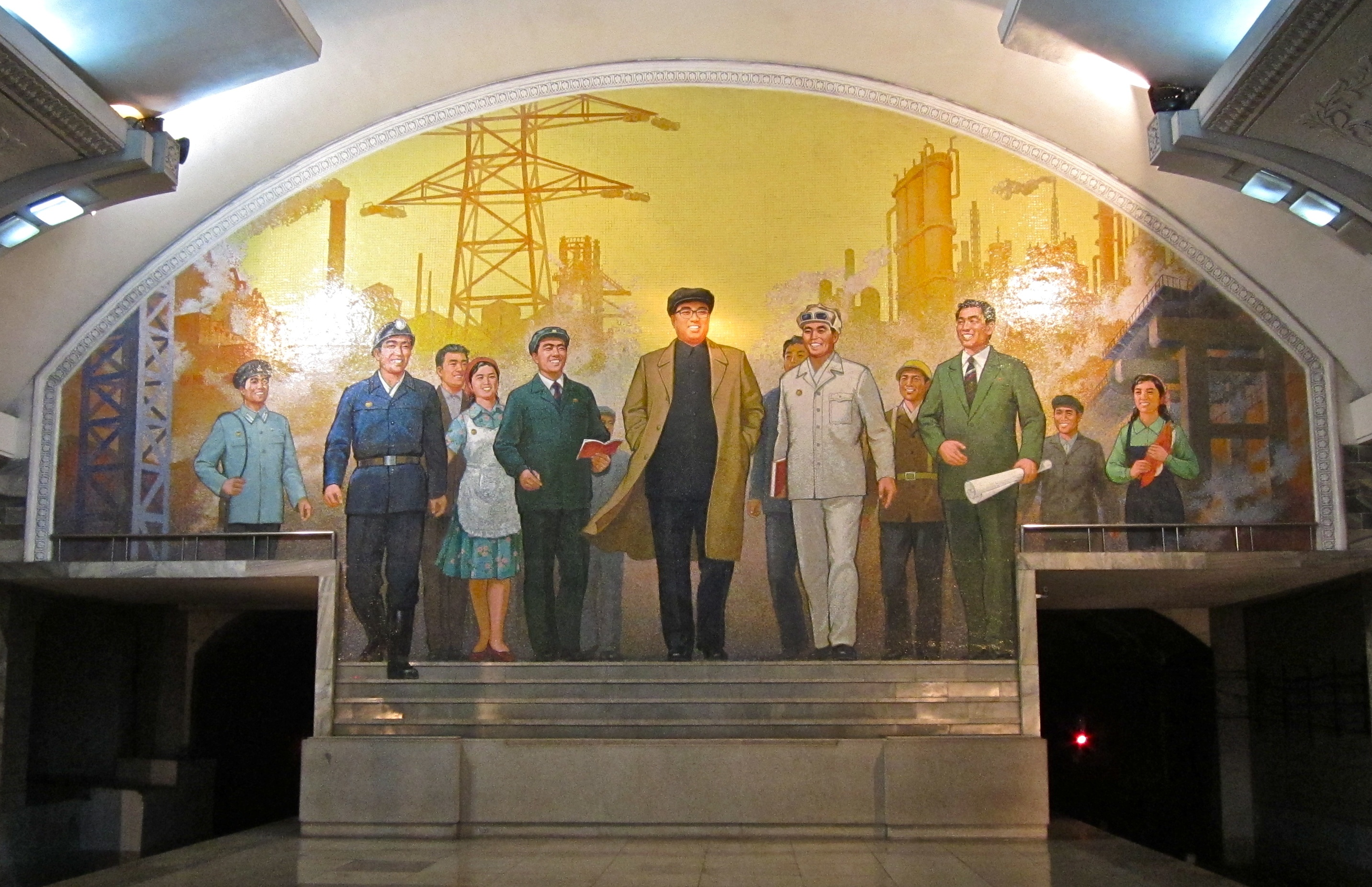 Mosaic Mural at Puhung Station; Pyongyang Metro in North Korea.